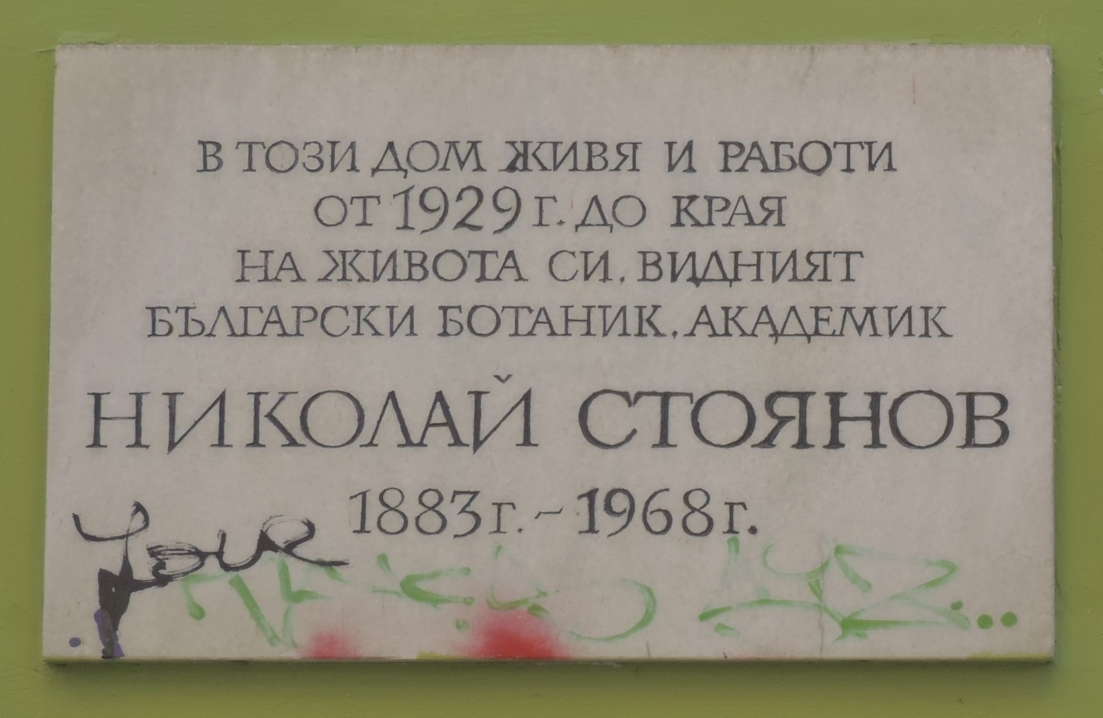 Memorial plaque for the botanicist Acad. Nikolai Stojanovon the facade of the house at 48 William Gladstone Str., Sofia.